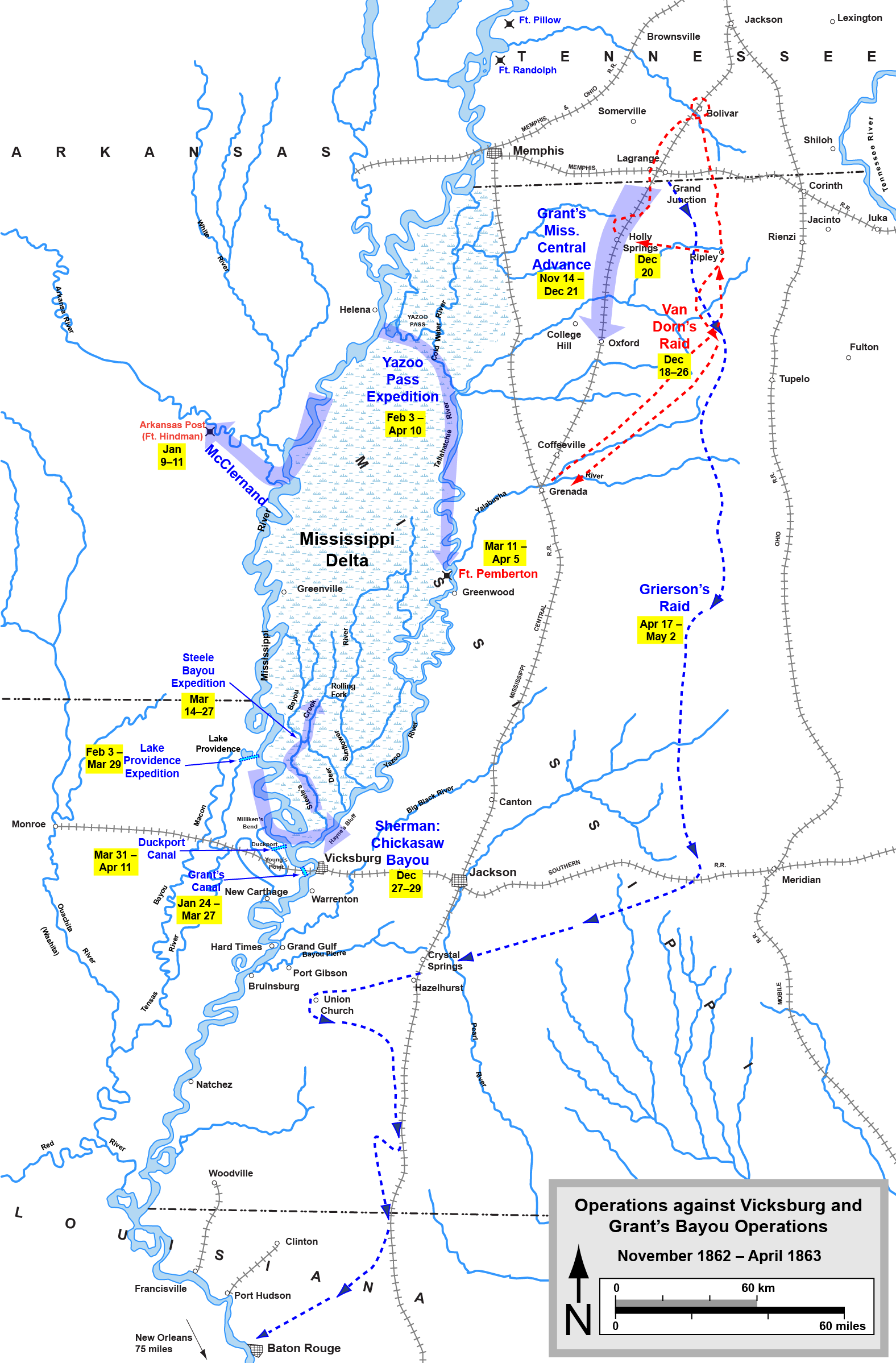 Map of the Vicksburg Campaign December 62 - March 63 of the American Civil War. Drawn in Adobe Illustrator CS5 by Hal Jespersen. Some graphic elements copied from a public domain resource of the U.S. government. Graphic source file is available at